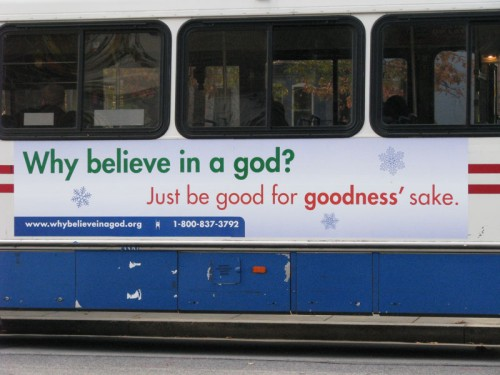 Picture of a bus ad put up by the American Humanist Association